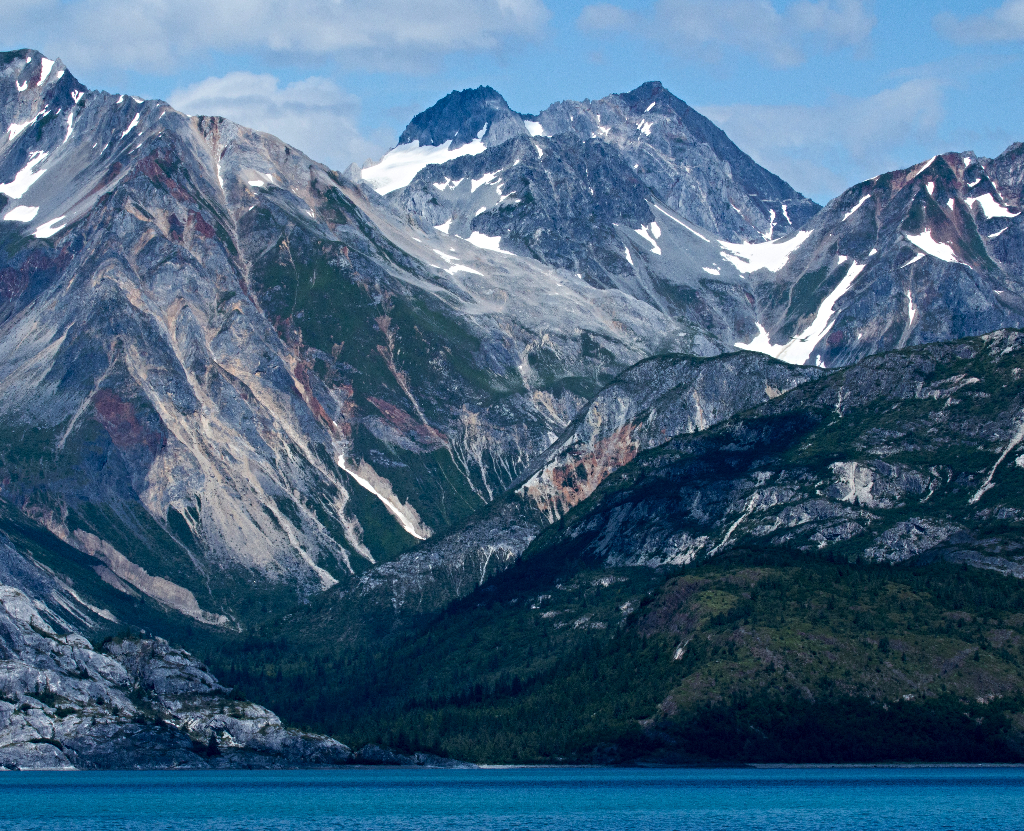 Mount Merriam in Glacier Bay National Park, Alaska.